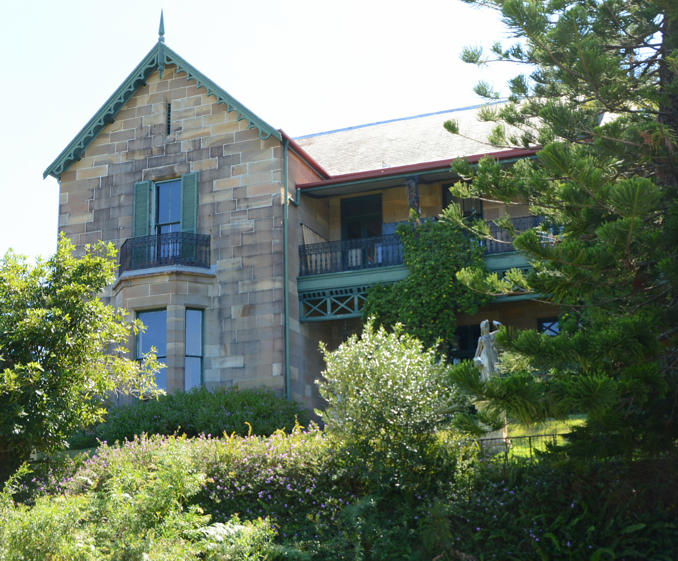 Farnham House, Randwick, Sydney, former home of Fred Hollows